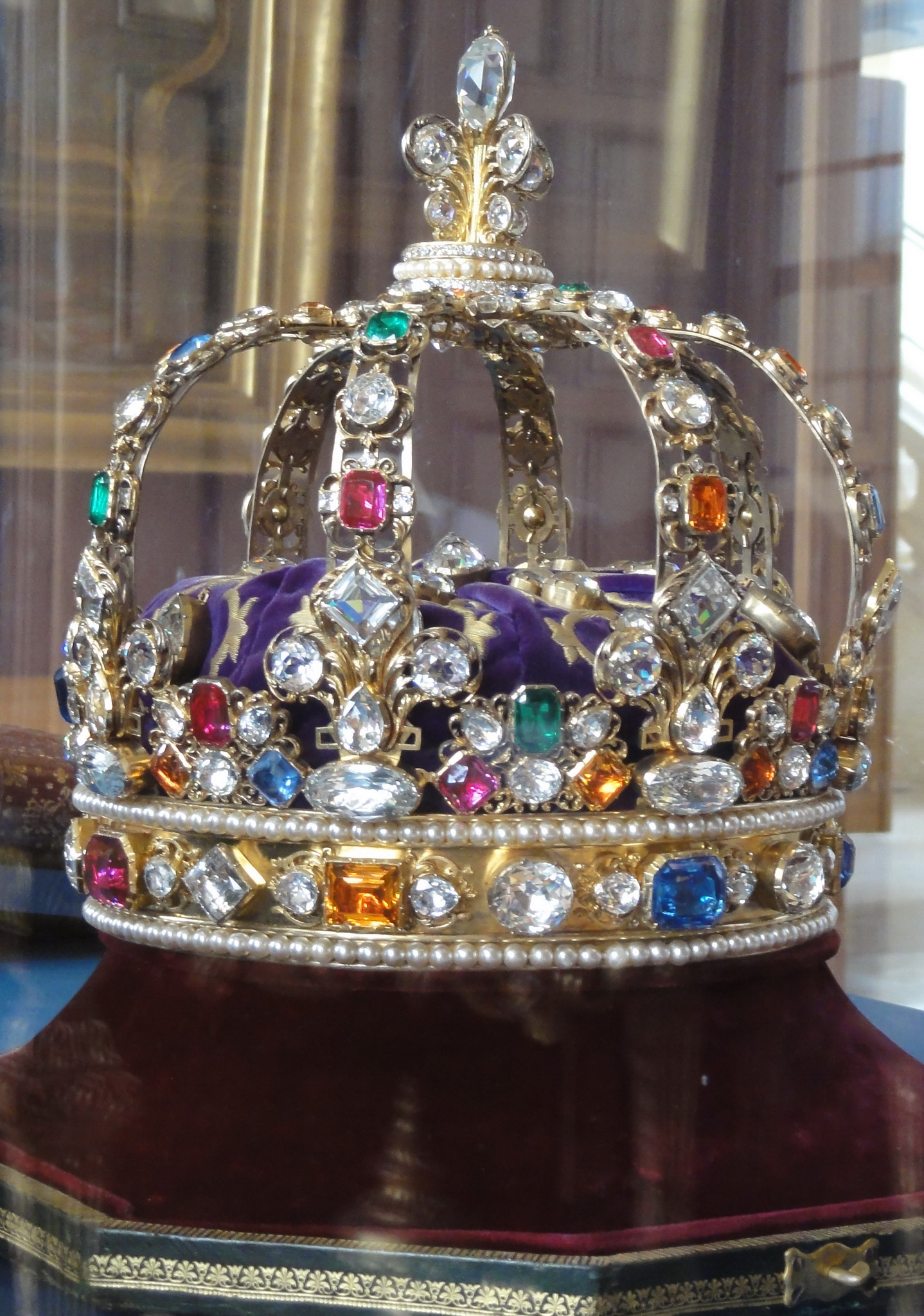 Crown of Luis XV. Replica XIX century. Palais du Tau (Reims)